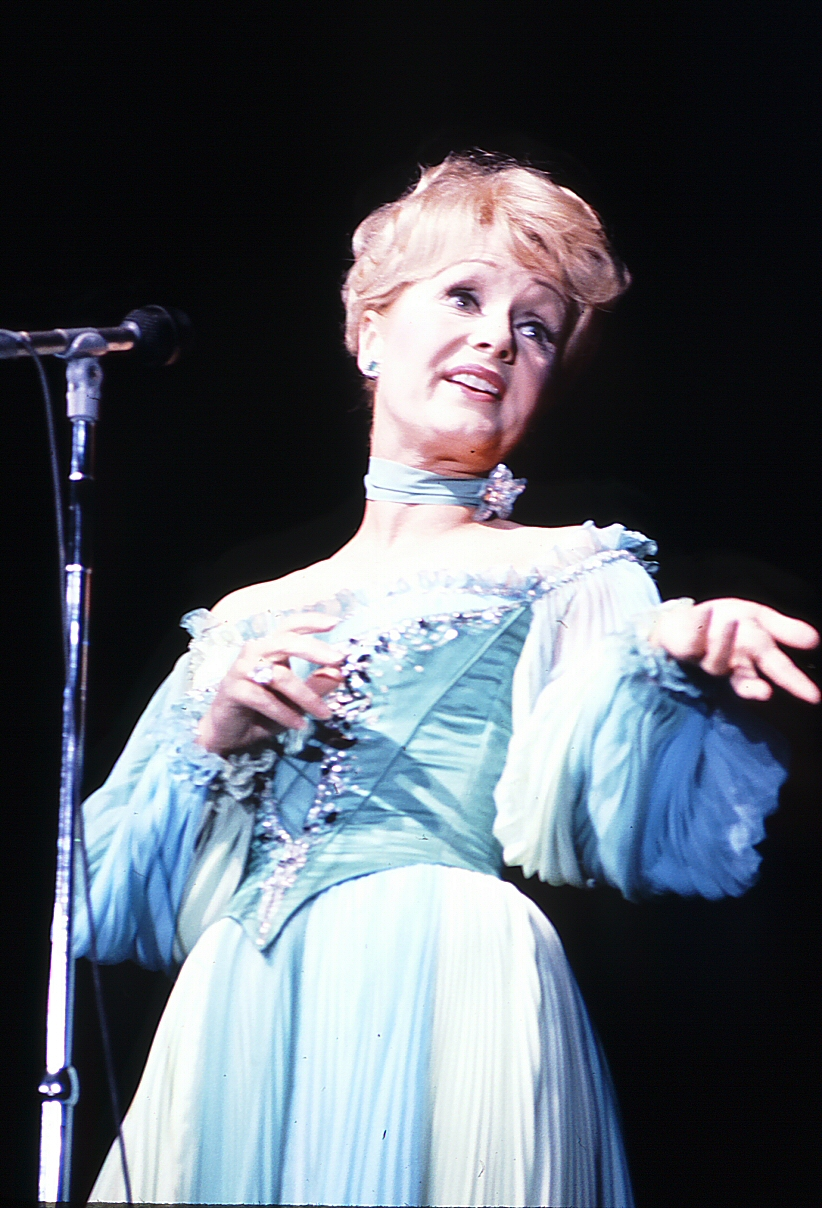 Debbie Reynolds performing at Knott's Berry Farm in 1971